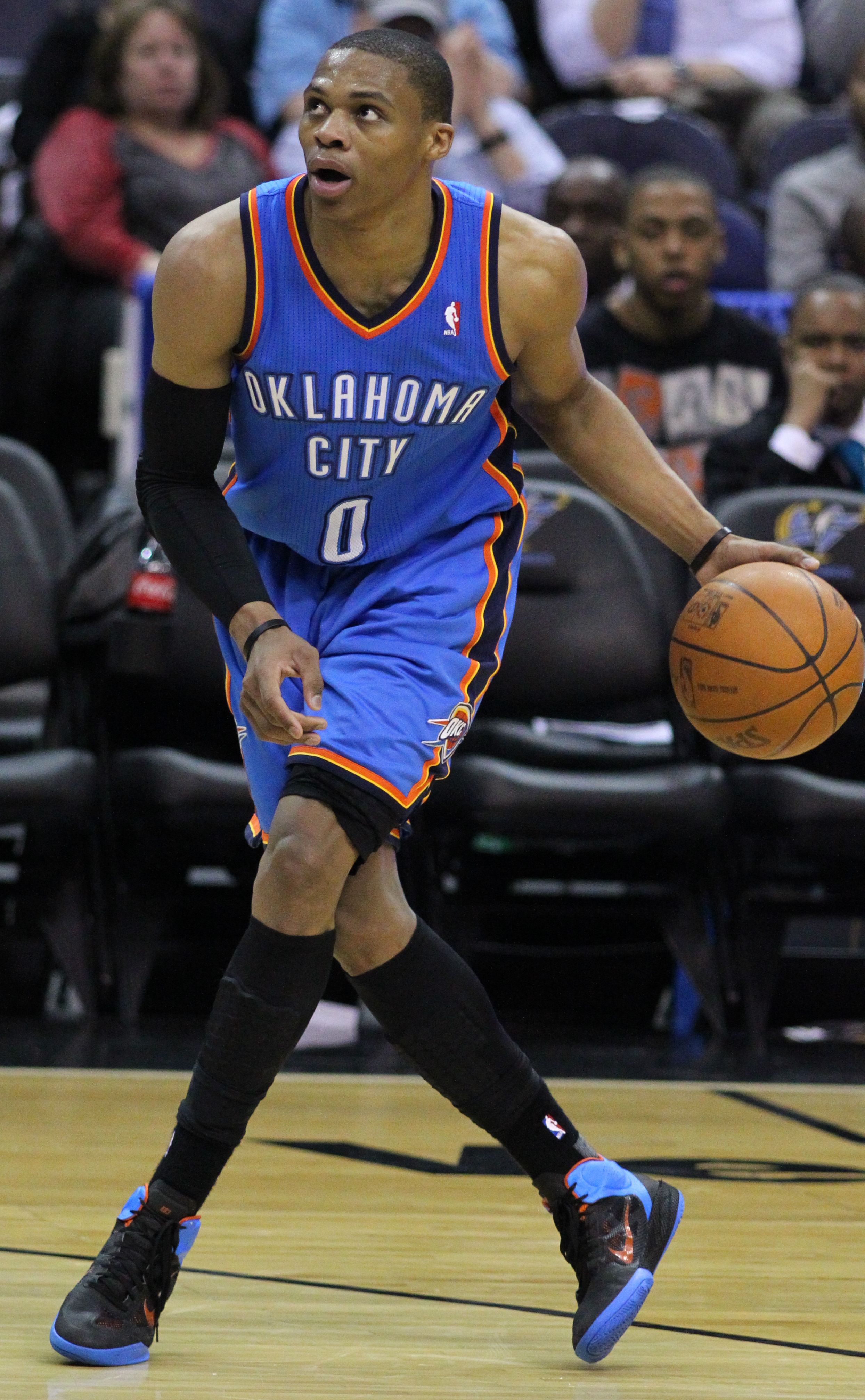 Wizards v/s Thunder 03/14/11